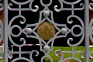 Seal of the Ministry of Justice Red-Brick Building, Central Government Building No.6